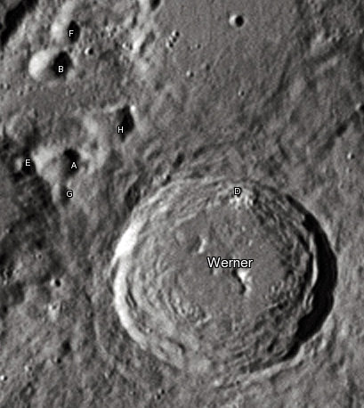 Werner lunar crater as seen from Earth with satellite craters labeled